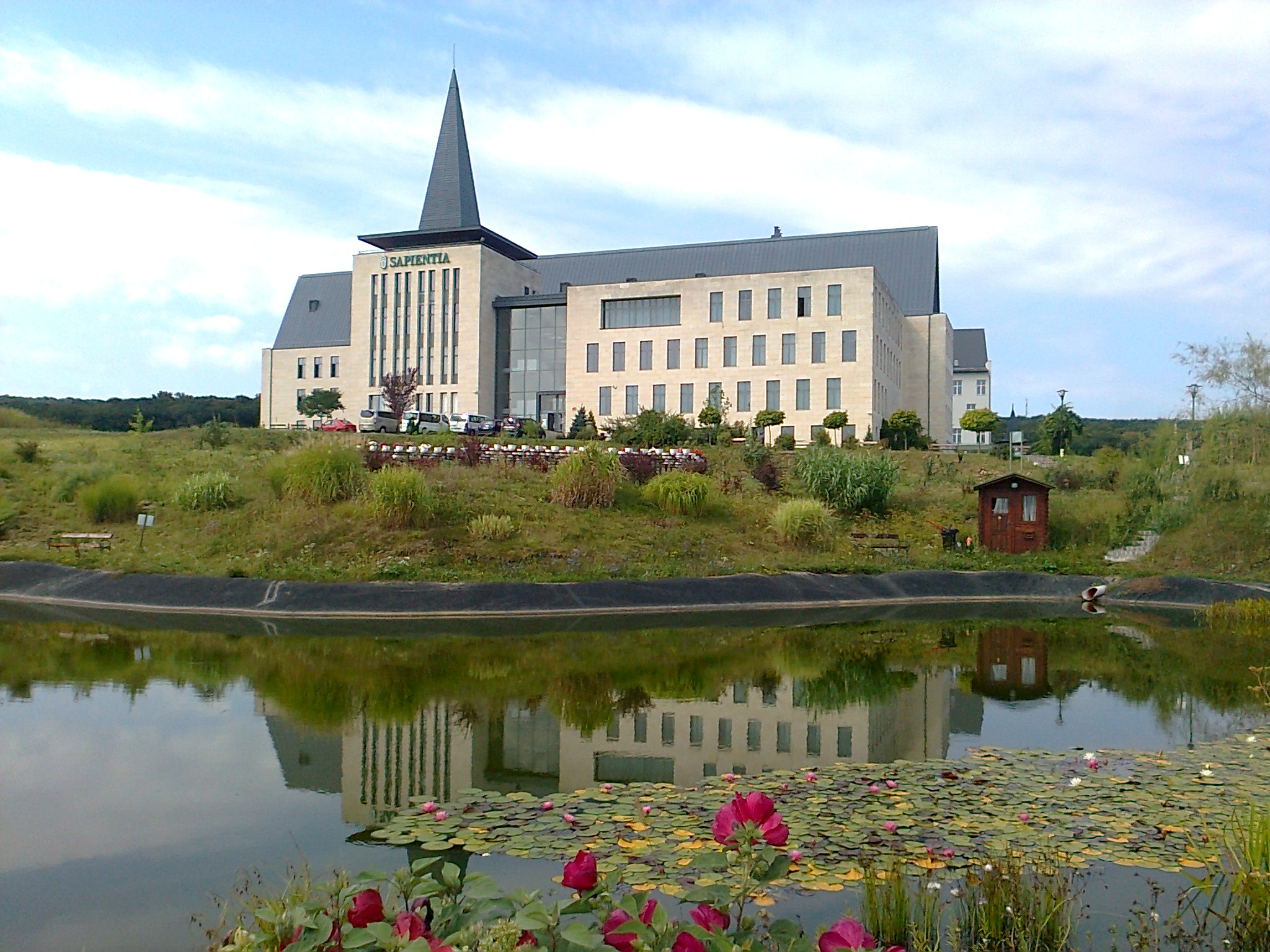 Sapientia Hungarian University of Transylvania Tg. Mures campus